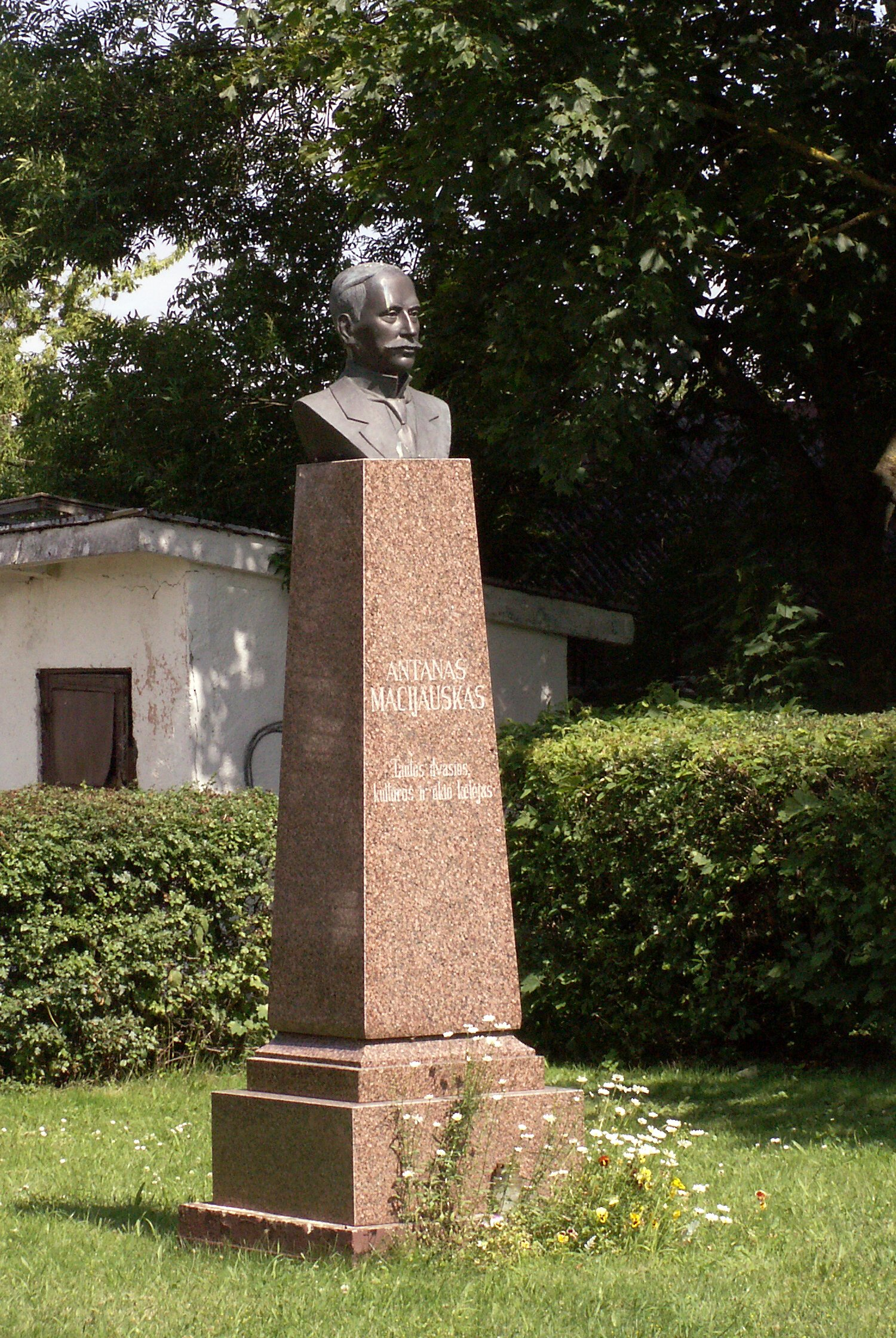 Antanas Macijauskas, member of Greath Seimas of Vilnius, Pabiržė, Lithuania, sc. Gediminas Piekuras